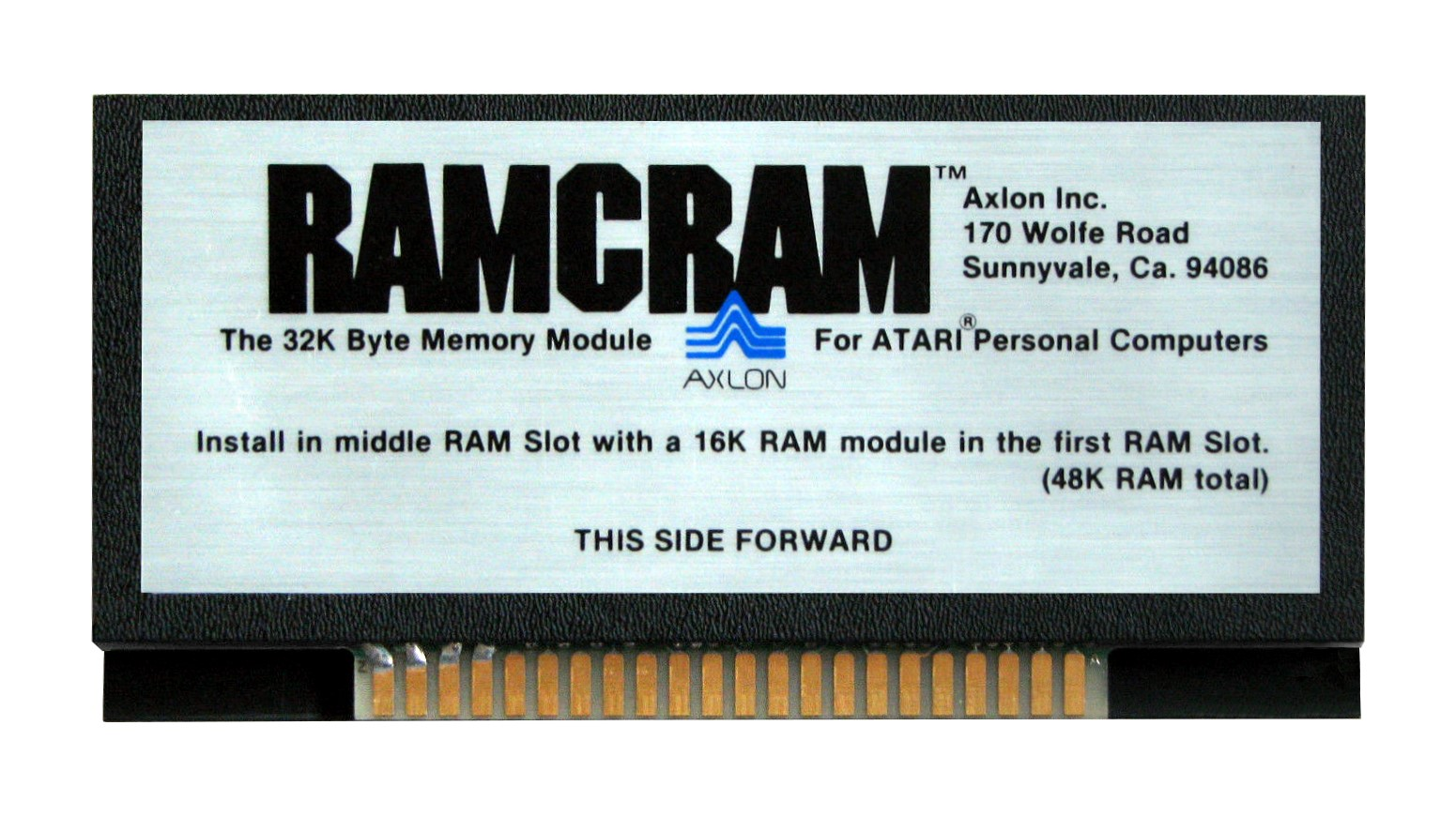 Atari 800 RAM expansion by Axlon - RAMCRAM 32K